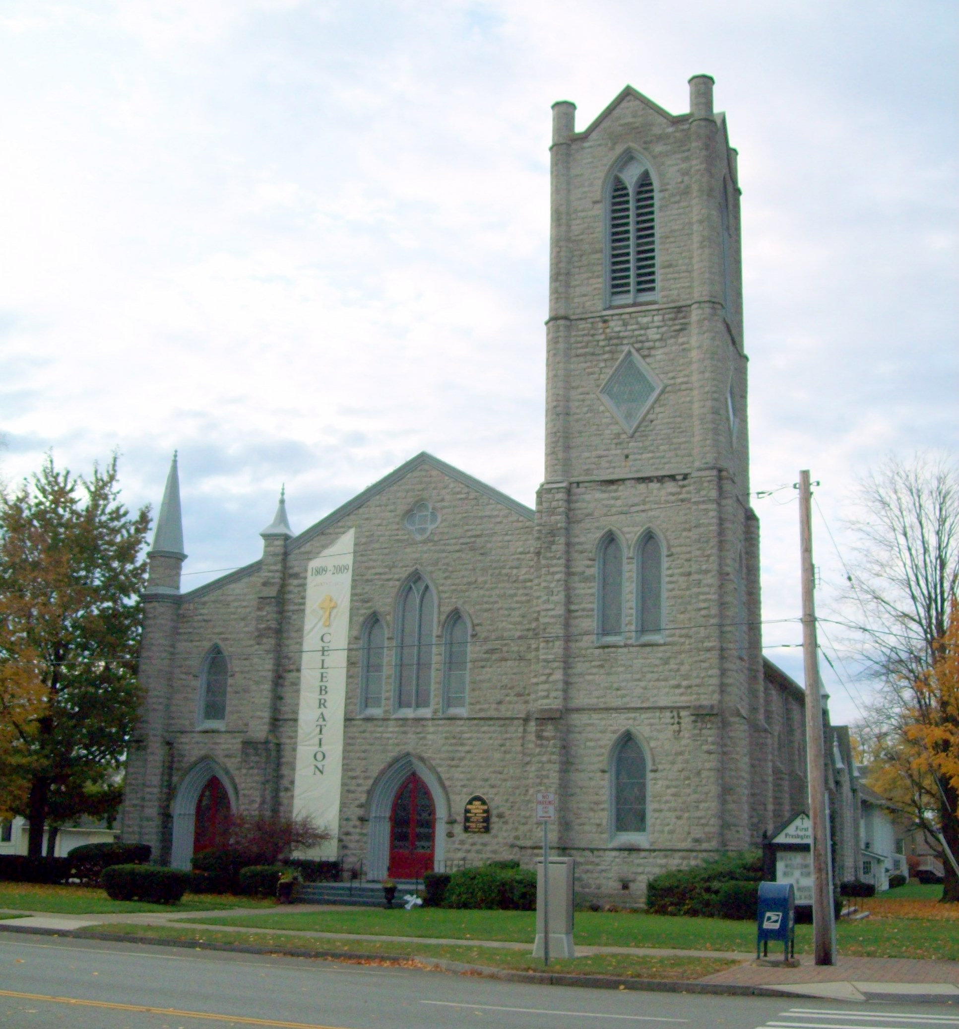 First Presbyterian Church, Batavia NY, October 2009